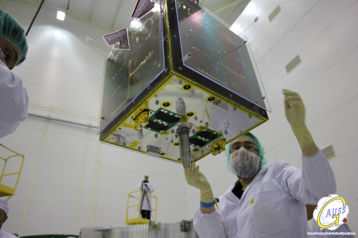 UniSat-6 satellite during integration with the launcher in Yasny, Russia